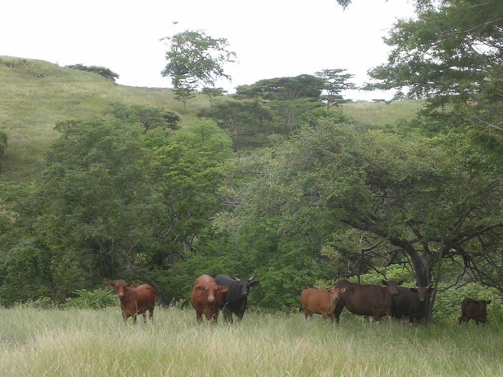 Grassy savanna and Bali Cattle in wet season, Daudere, Lautem, Timor-Leste